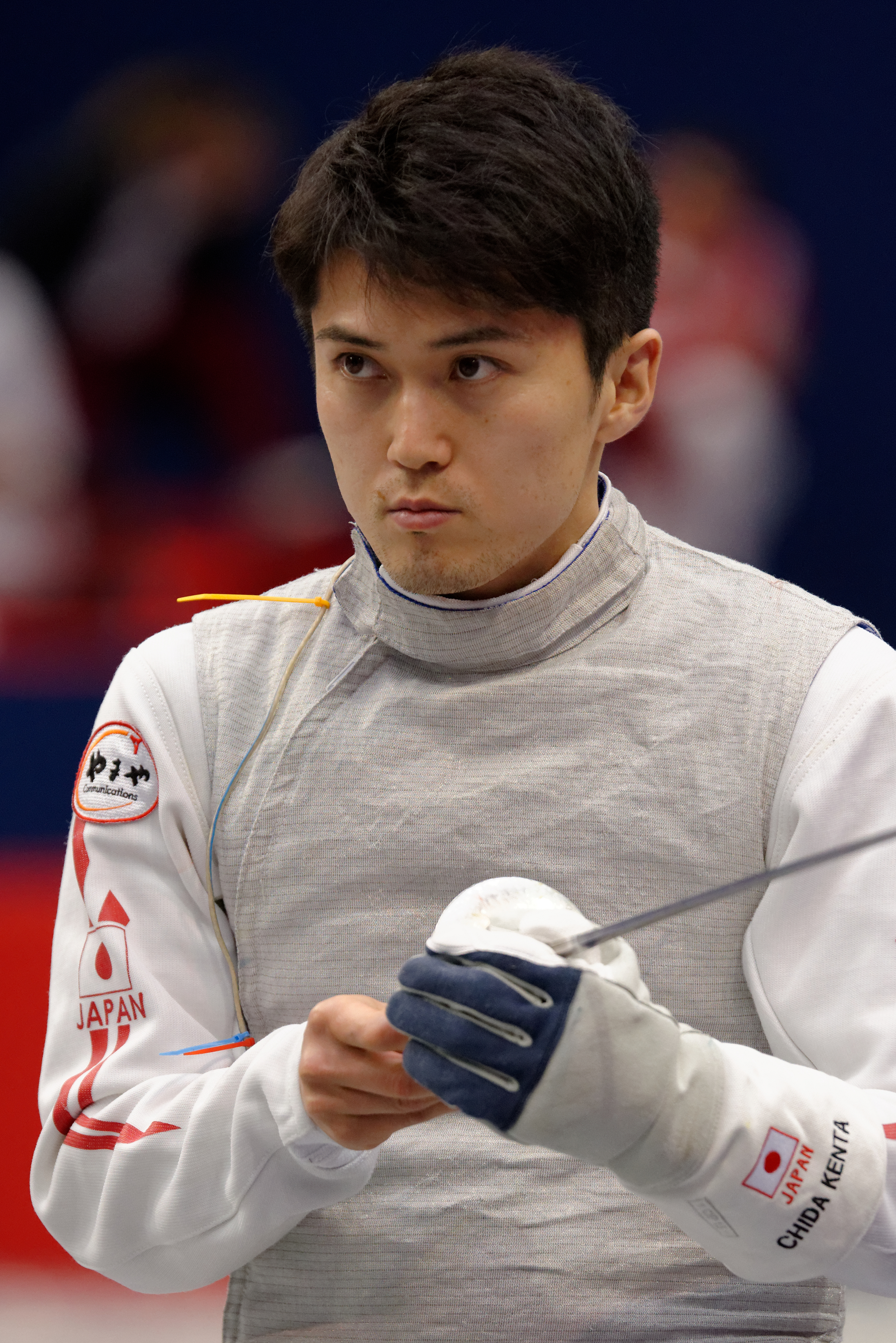 Japan's Kenta Chida on qualifications day at the 2015 Challenge International de Paris, a men's foil World Cup competition.